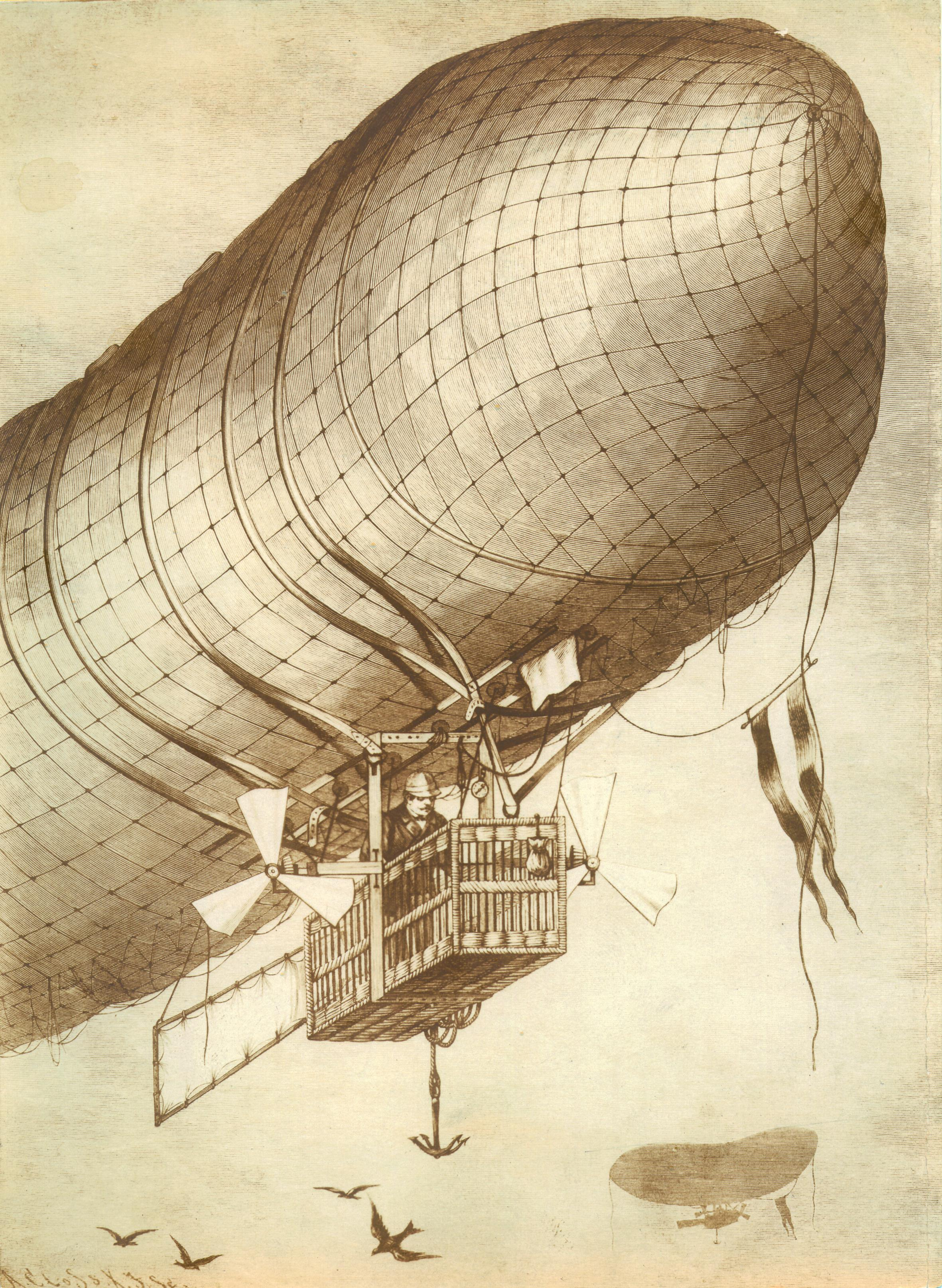 Man-powered airship of Baumgarten-type, with Woelfert flying